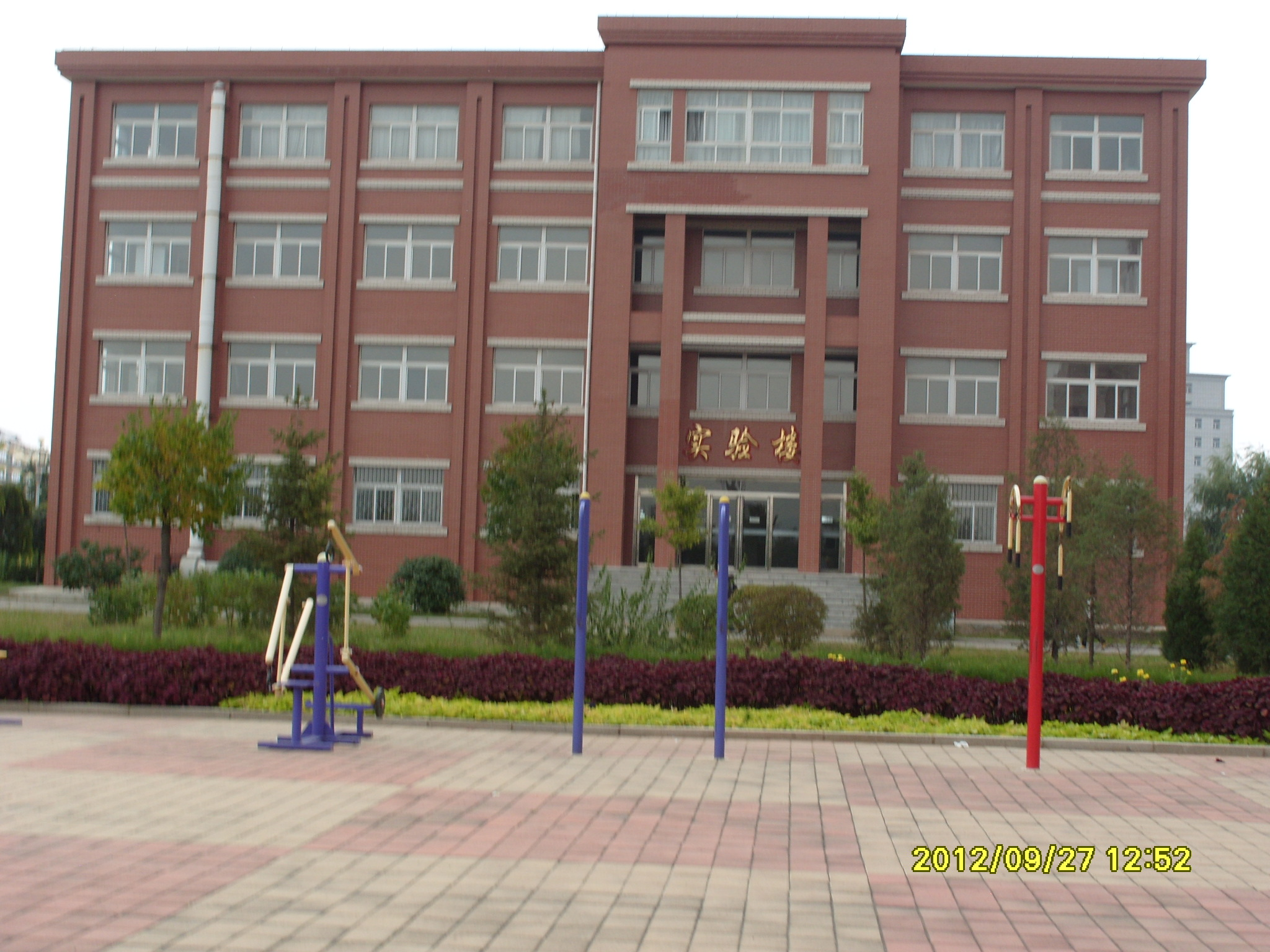 A photo of the expreiment building of Lingyuan Munieipal Experimental Middle School